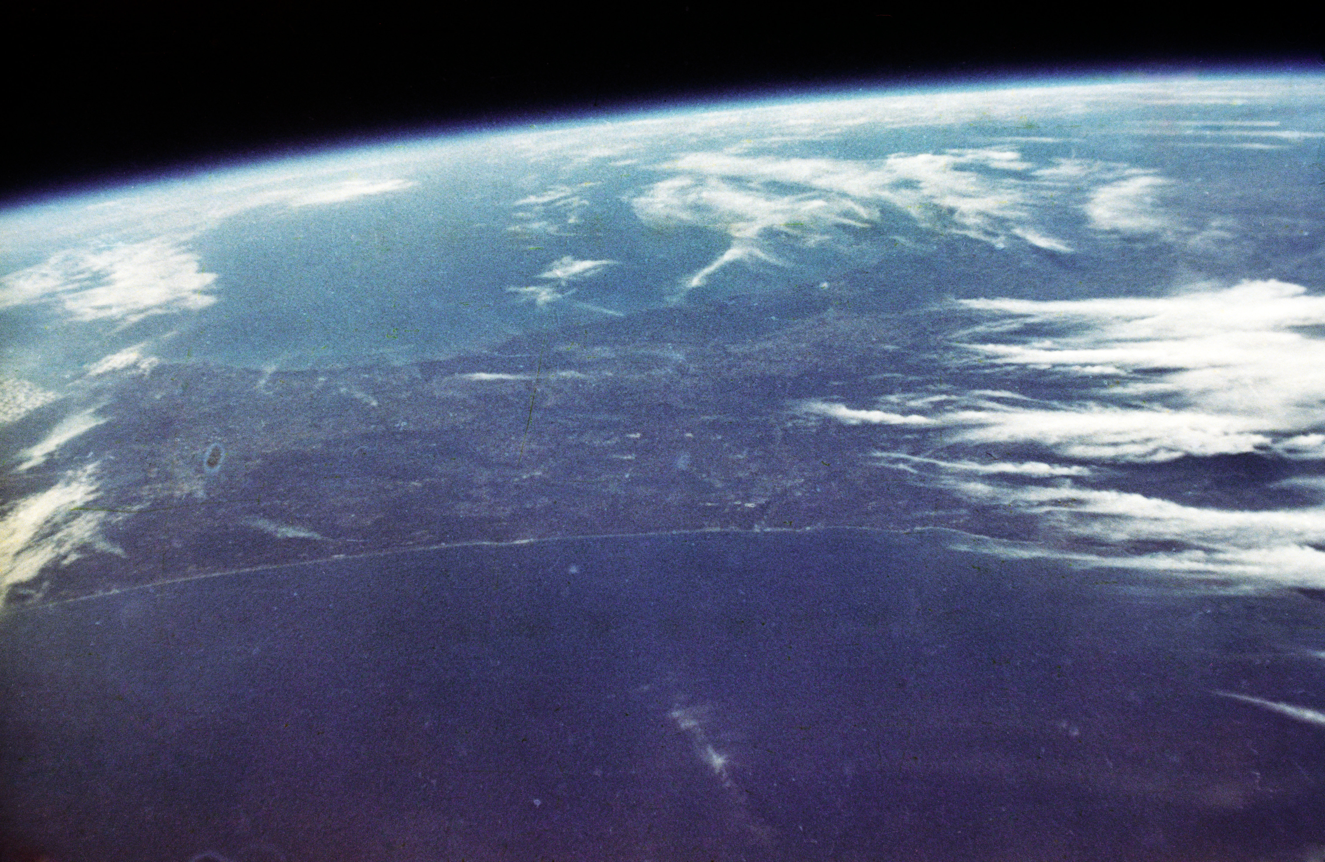 Photo of the Earth taken by John Glenn during Mercury Atlas 6 (Friendship 7) orbital flight (Feb. 20, 1962).